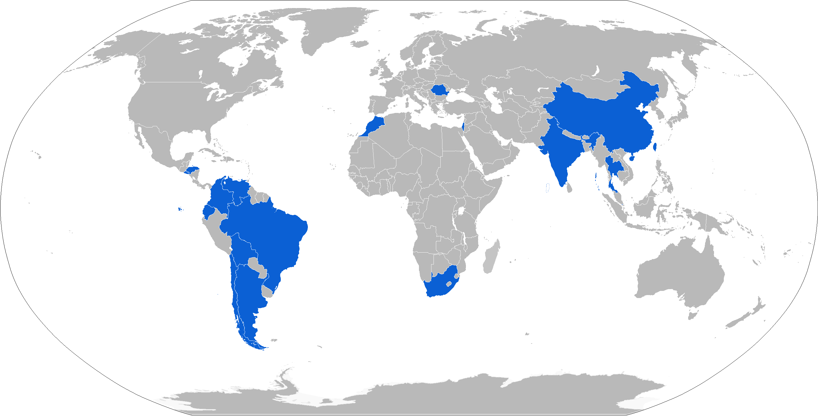 Map with Python operators in blue